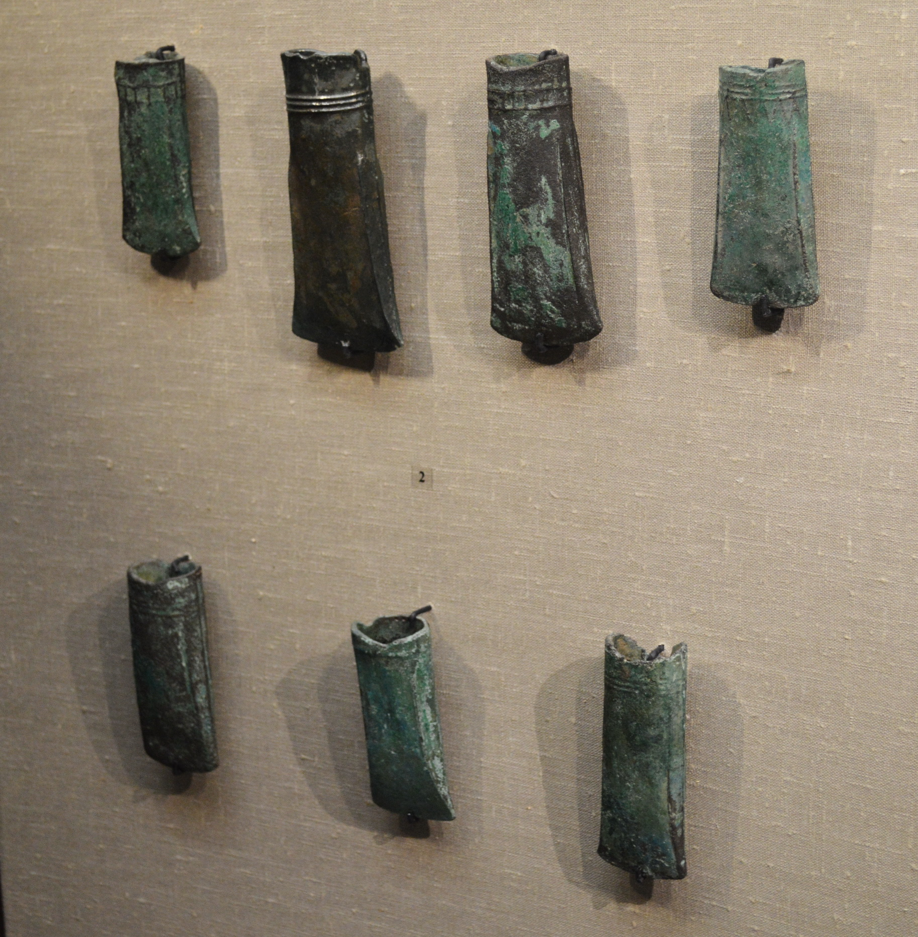 Celts, end of 3 - begin of 2 mill. BC, Perm' region.